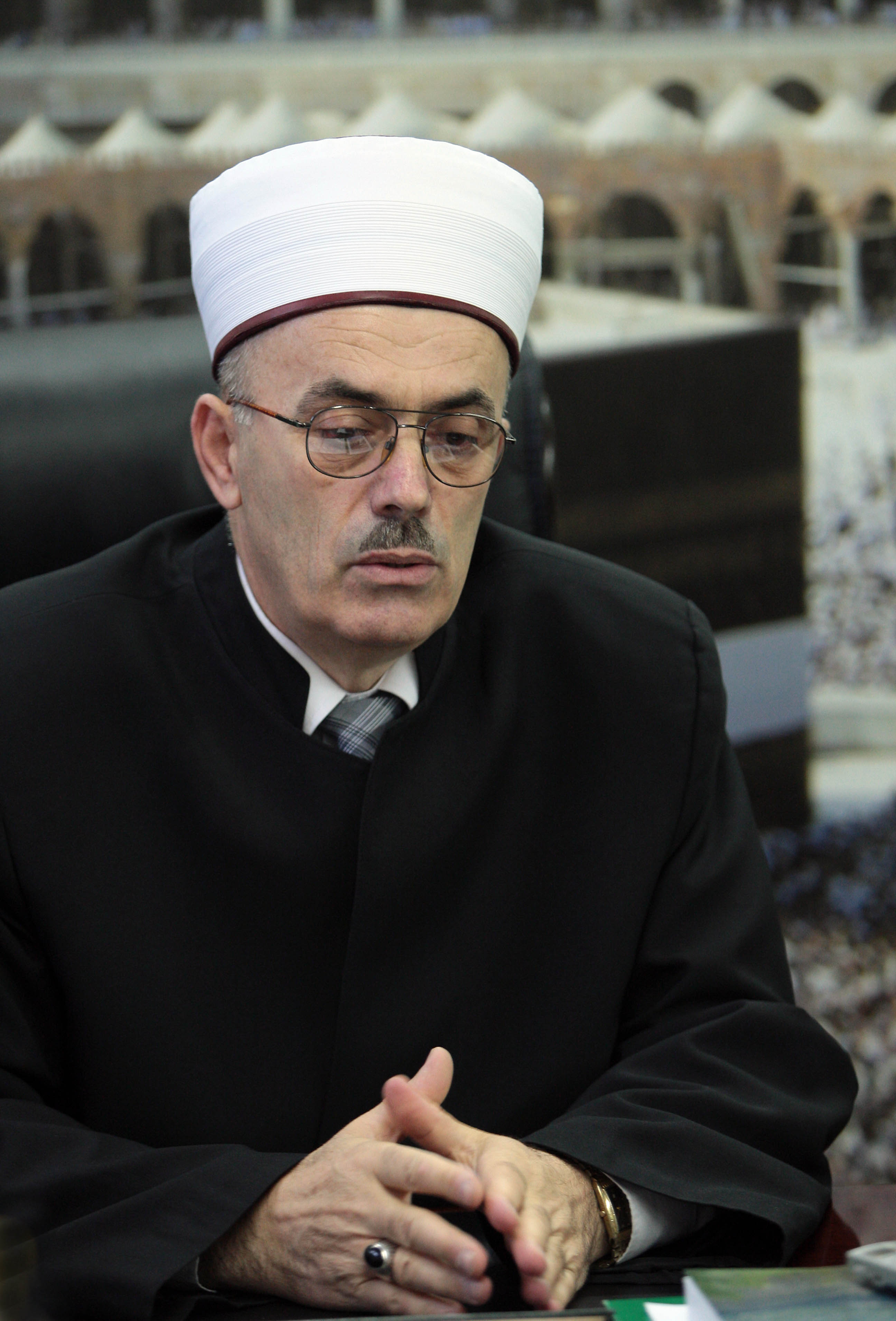 Adem Zilkić